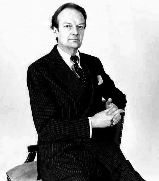 Murray Beauclerk, 14th Duke of St Albans